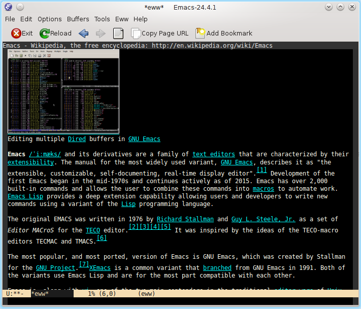 The eww web browser included in GNU Emacs, showing the Emacs article on English Wikipedia. Desktop environment is KDE 4.13.2